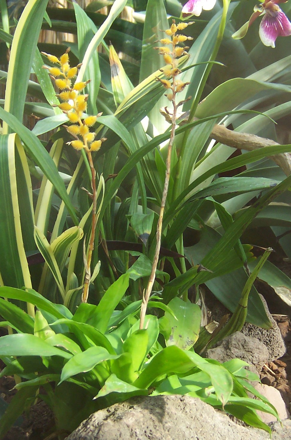 Aechmea pedicellata, habitus of flowering plant